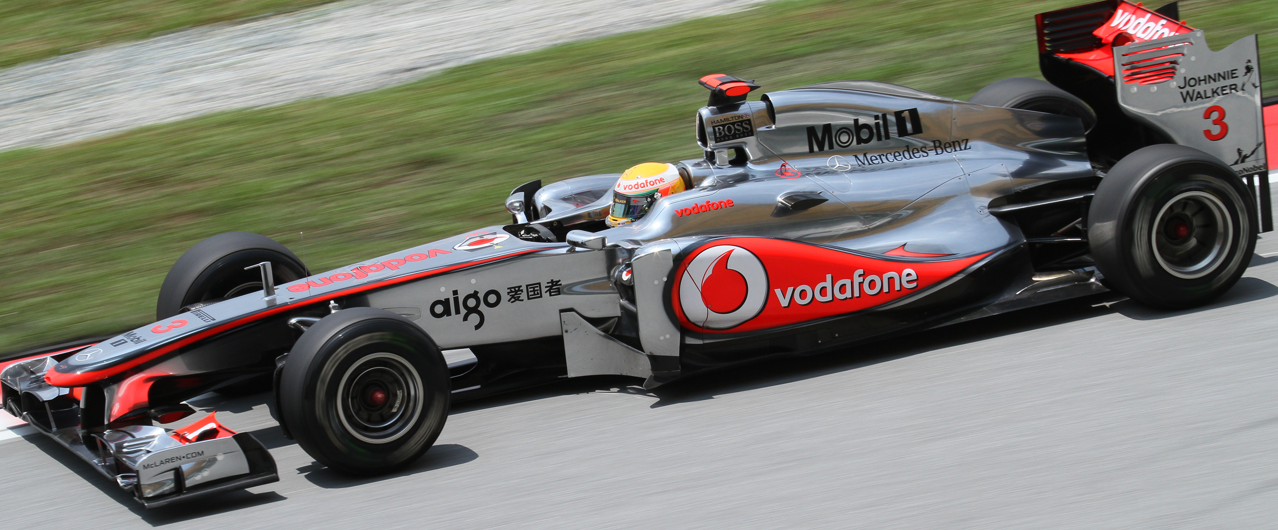 Formula One 2011 Rd.2 Malaysian GP: Lewis Hamilton (McLaren) during the second practice session on Friday.